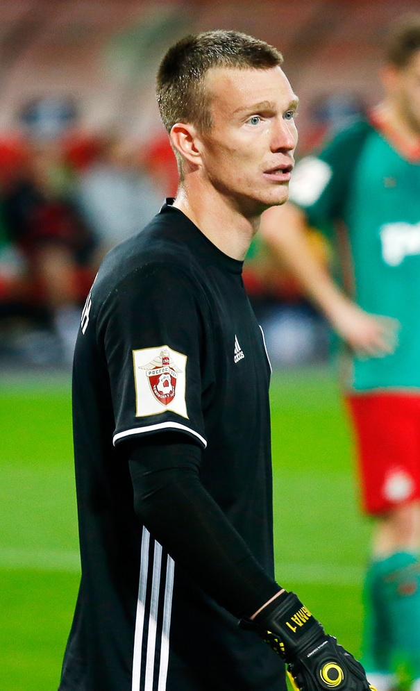 Artur Nigmatullin with FC Amkar Perm in a game against FC Lokomotiv Moscow.